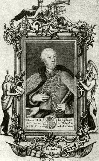 László Amade (1703-1764)